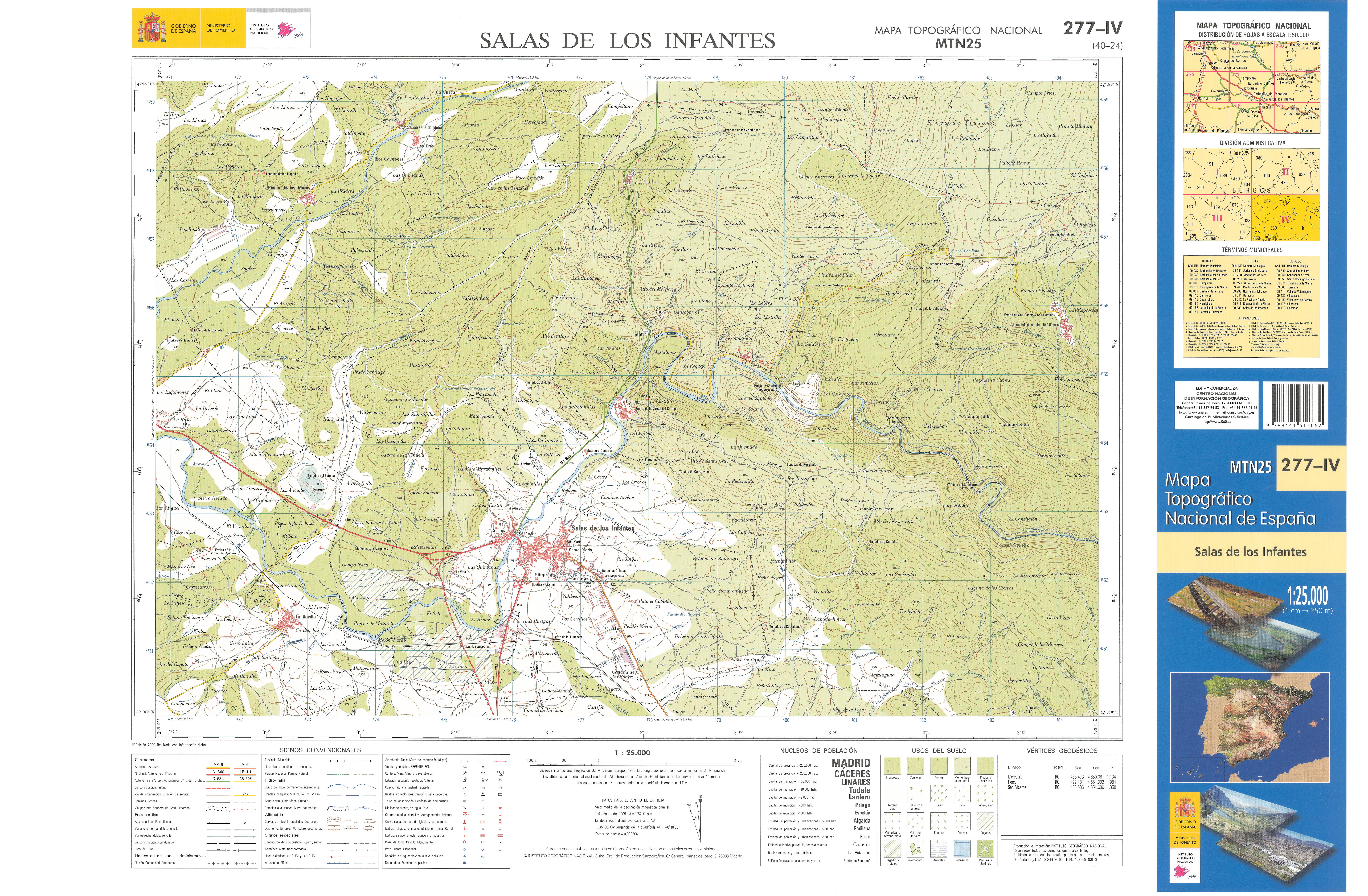 Fragment 0277c4 of the National Topographic Map of Spain in 2009 at a scale of 1:25000 printed and scanned with a resolution of 250 ppi. It shows Salas de los Infantes.